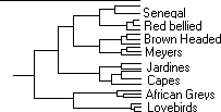 genomic DNA studies of eight species of African parrots